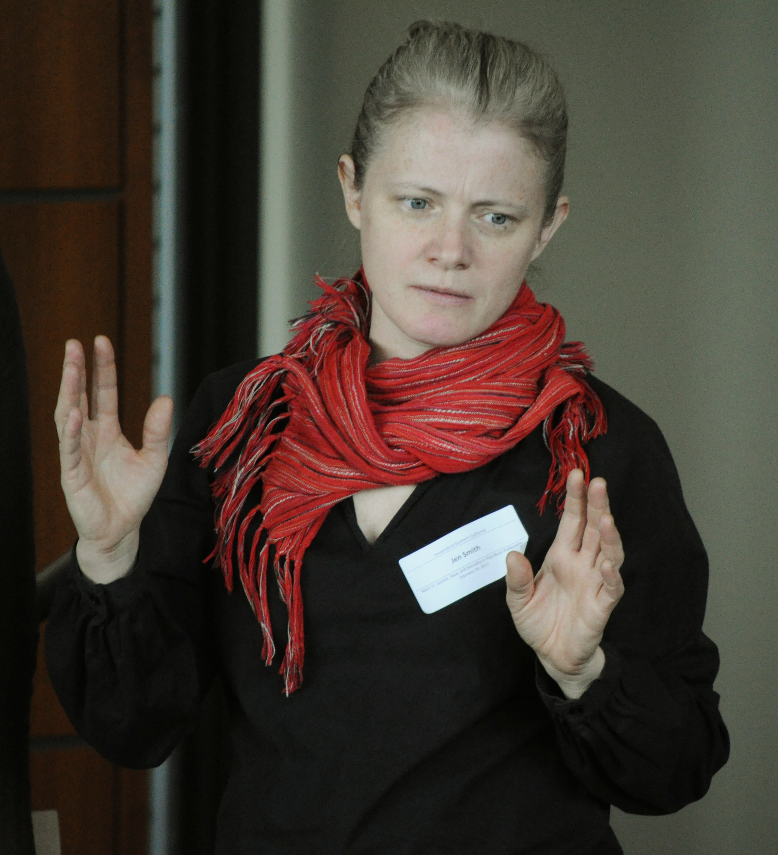 Artist, musician, zine editor, and activist Jen Smith at Work It! a conference at USC on gender, race, and sexuality in pop music professions presented in association with the 2011 Pop Conference at UCLA.